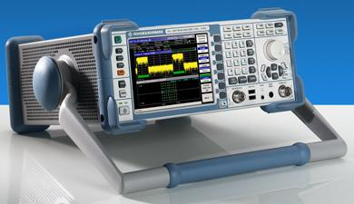 Spectrum analyzer from Rohde & Schwarz